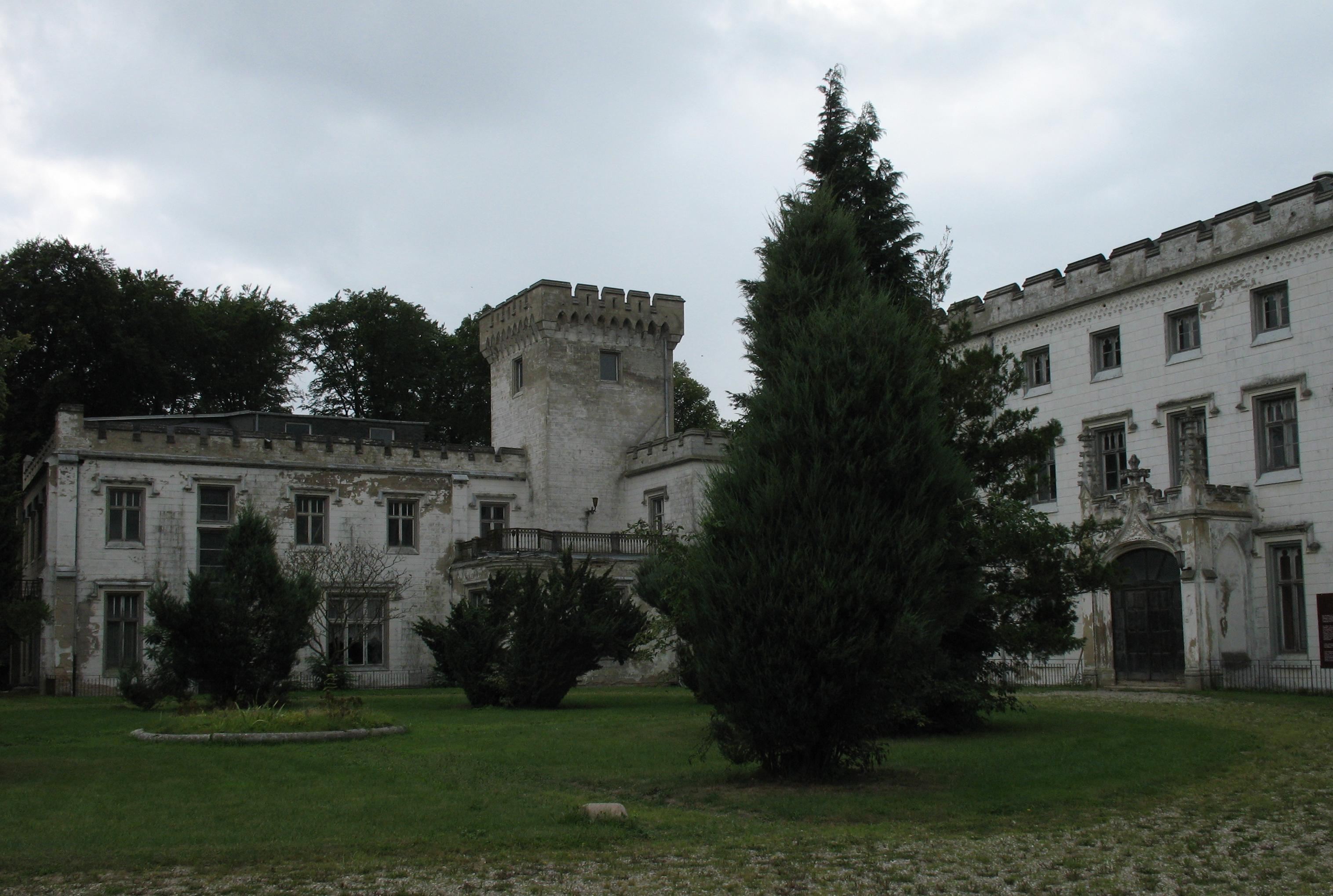 Mansion in Varchentin in Mecklenburg-Western Pomerania, Germany